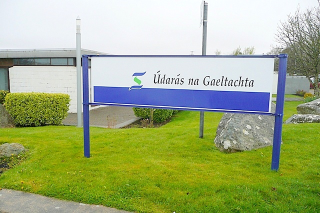 Údarás na Gaeltachta (Gaeltacht Authority) This is the headquarters of the authority that manages the Gealtacht (Irish-speaking) area of Connemara, to the west of Galway City.